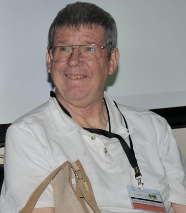 Prof Joe Ball at IWOTA2013 Bangalore